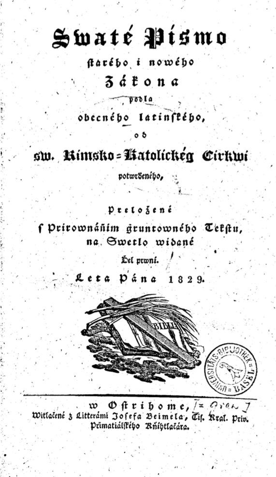 The first page of the translation of the Bible in Bernolak language by Juraj Palkovič